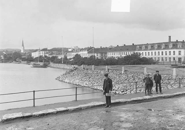 Hamar in the 1890s.